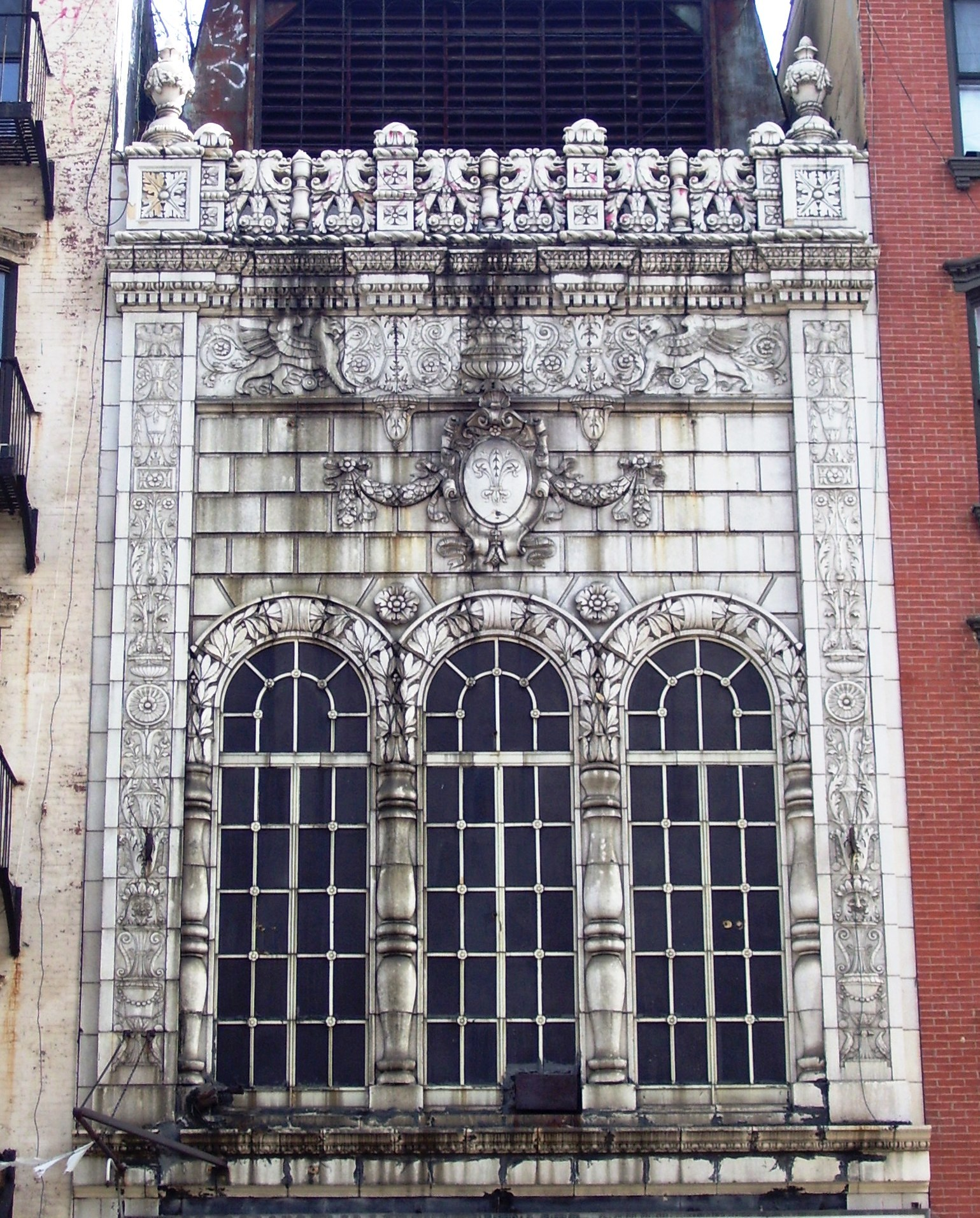 Loew's Canal Street Theatre at 31 Canal Street between Essex and Ludlow Streets in the Lower East Side neighborhood of Manhattan, New York City, was built in 1926-27 and was designed by Thomas W. Lamb. It was designated a New York City lanmark on September 14, 2010. (Source: "NYCLPC Loew's Canal Street Theatre Designation Report")